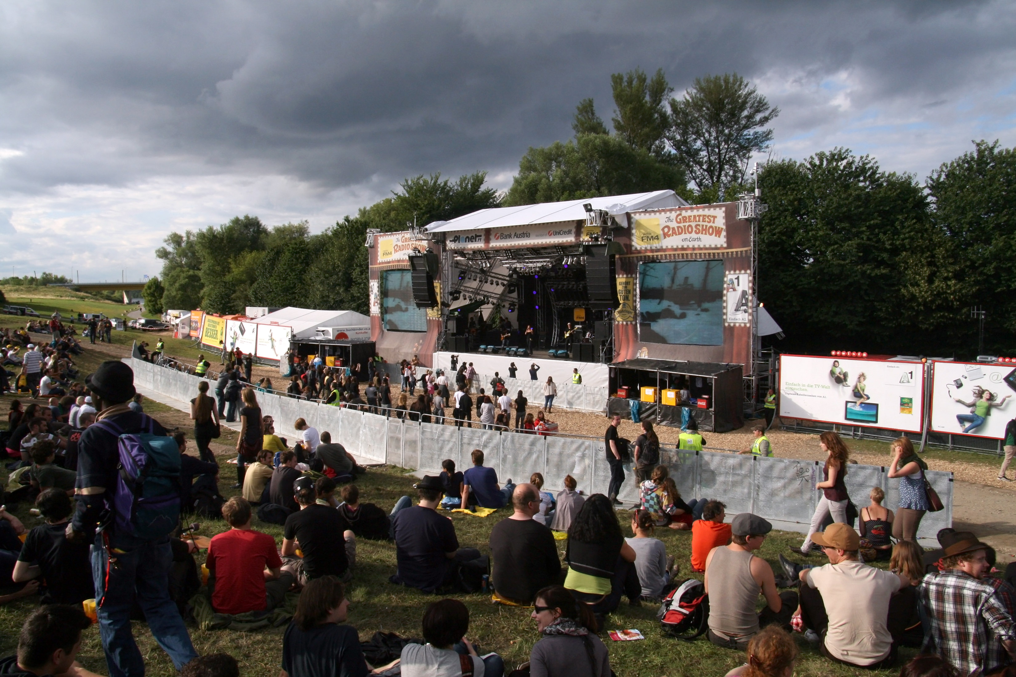 SAEDI - Donauinselfest 2011 in Vienna